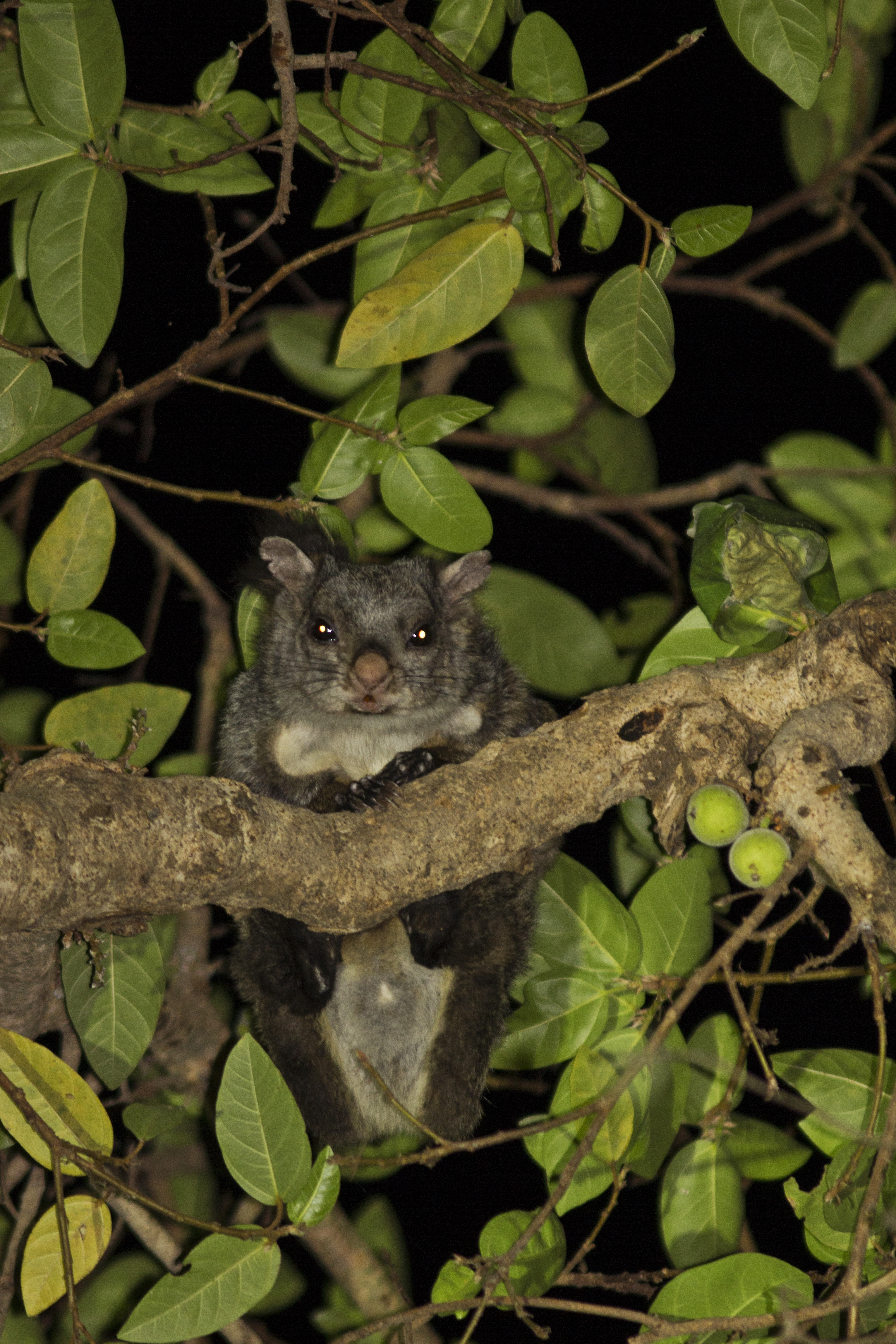 Indian Giant Flying Squirrel consuming Ficus Racemosa fruits. This was the first authenticate record of presence of Indian Giant Flying Squirrel from Polo Forest.